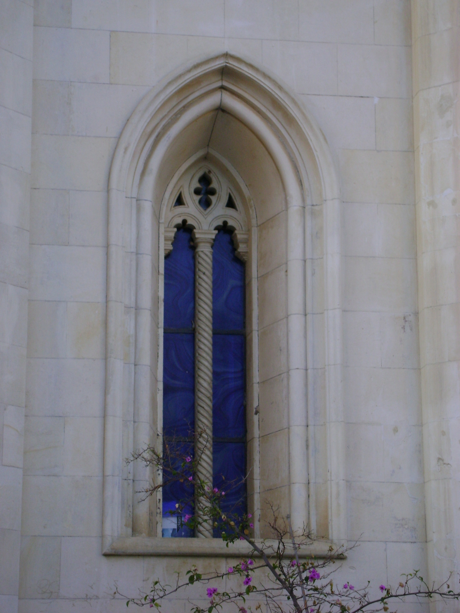 The lancet window of the church of Most Holy Mary of Assumption, Sant'Eusanio del Sangro, province of Chieti, Abruzzo